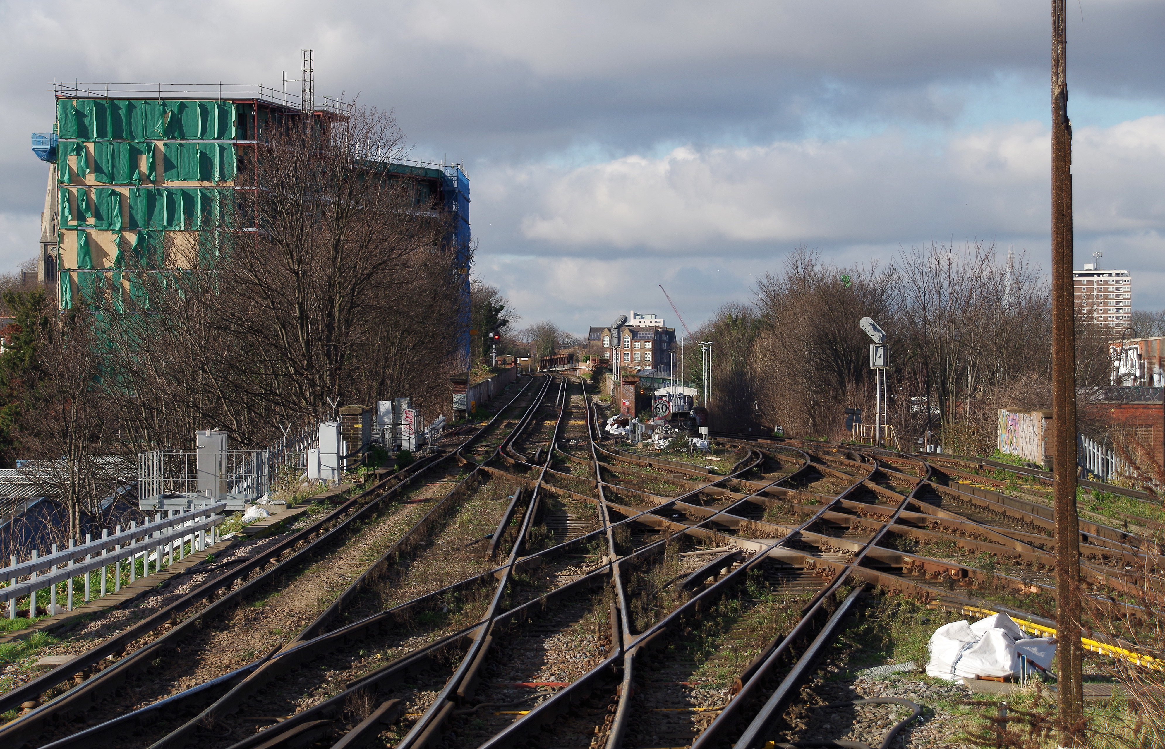 The crossover tracks at Lewisham Junction, seen from the platform at Lewisham station.